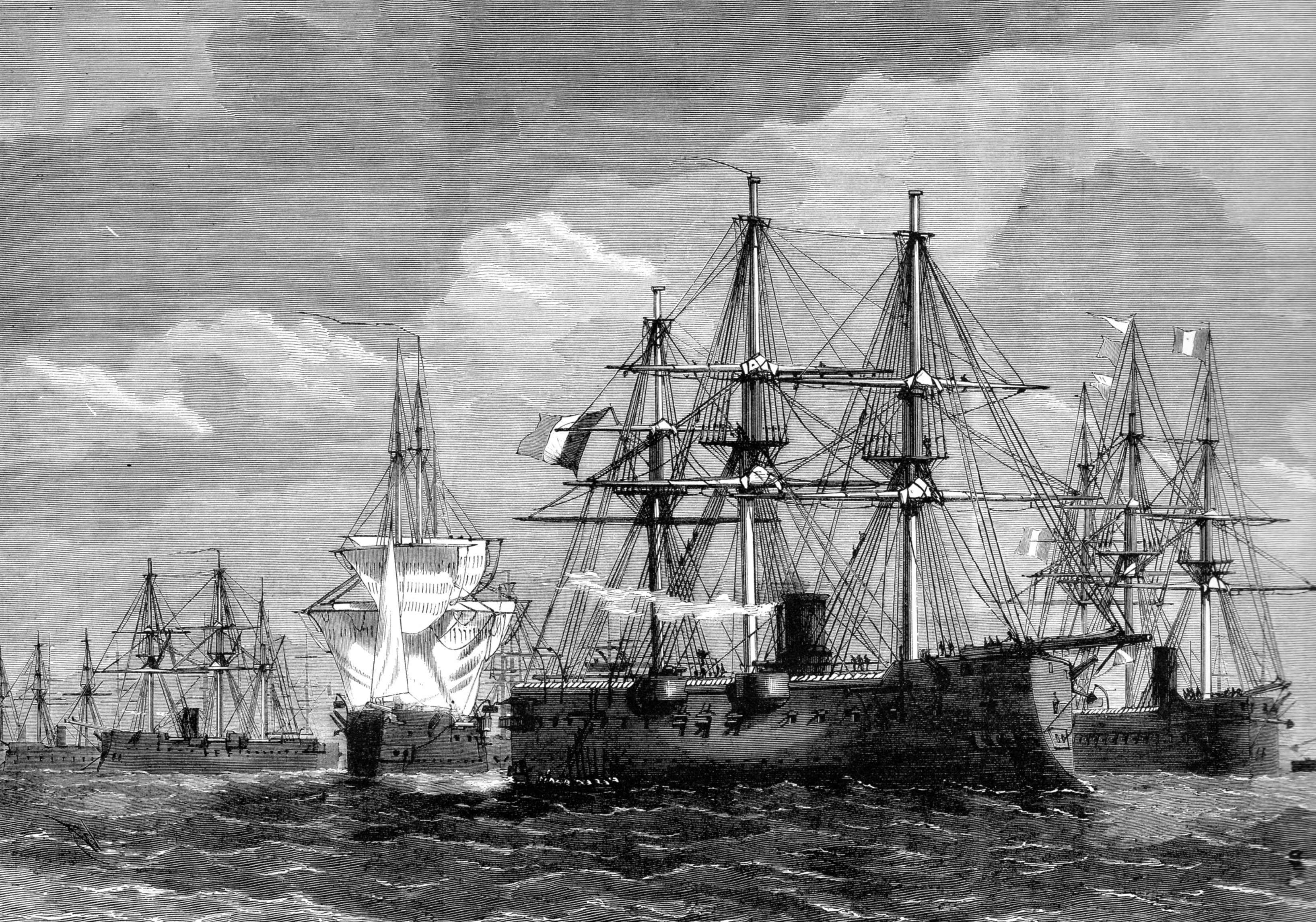 The French squadron of the East in front of Heligoland on 26 September 1870. From the left: Guyenne, Thétis, Flandre, Océan and the flagship Surveillante.